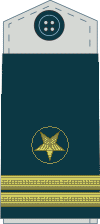 Serbian military ranks and insignia